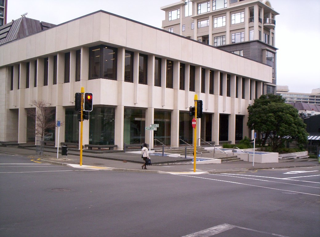 Court of Appeal of New Zealand, in Wellington.